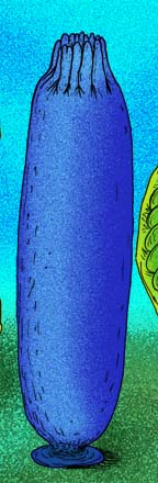 Reconstruction of the Precambrian poriferan Vaveliksia velikanovi